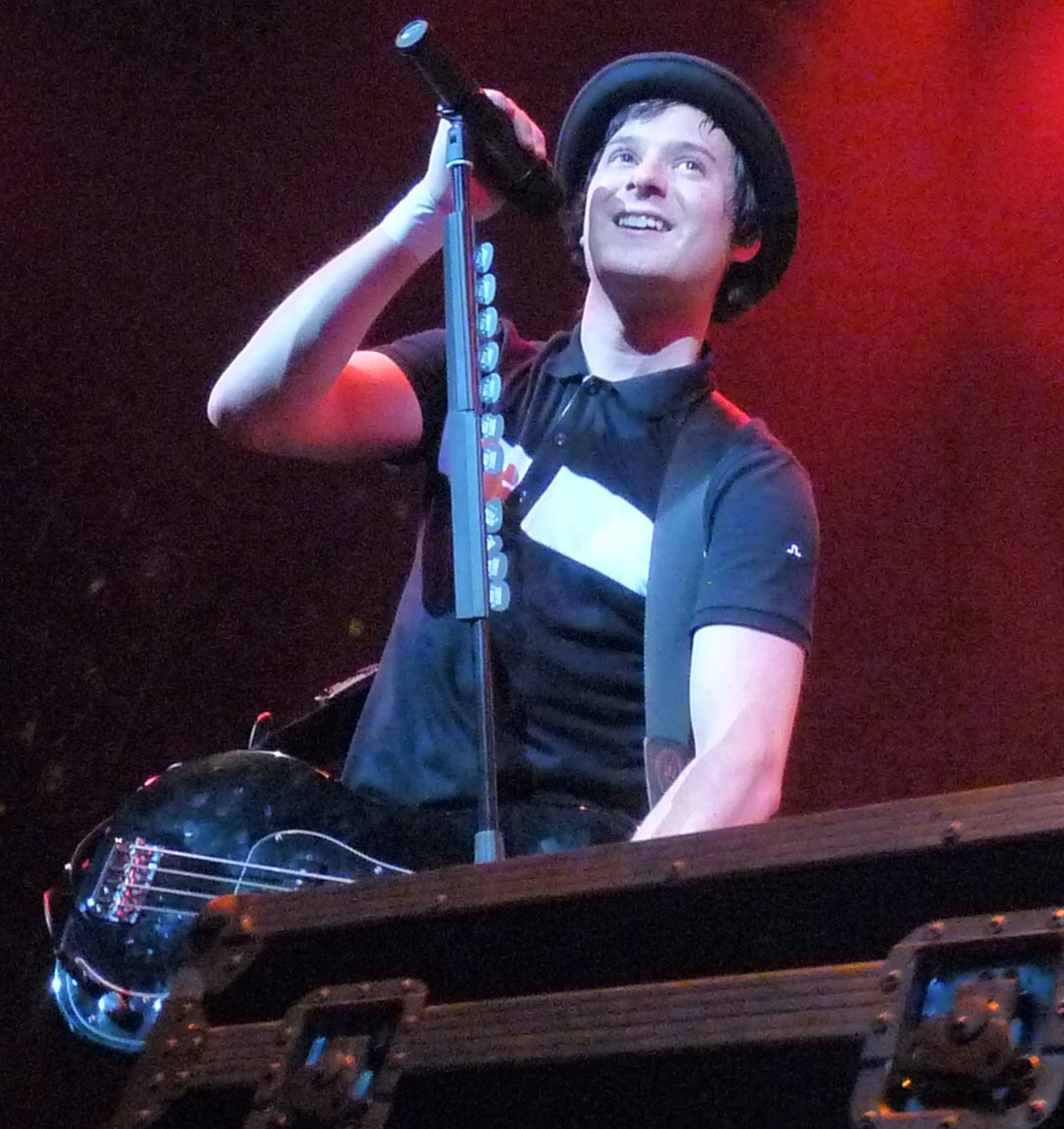 David Desrosiers of Simple Plan performs at the band's show in Moscow